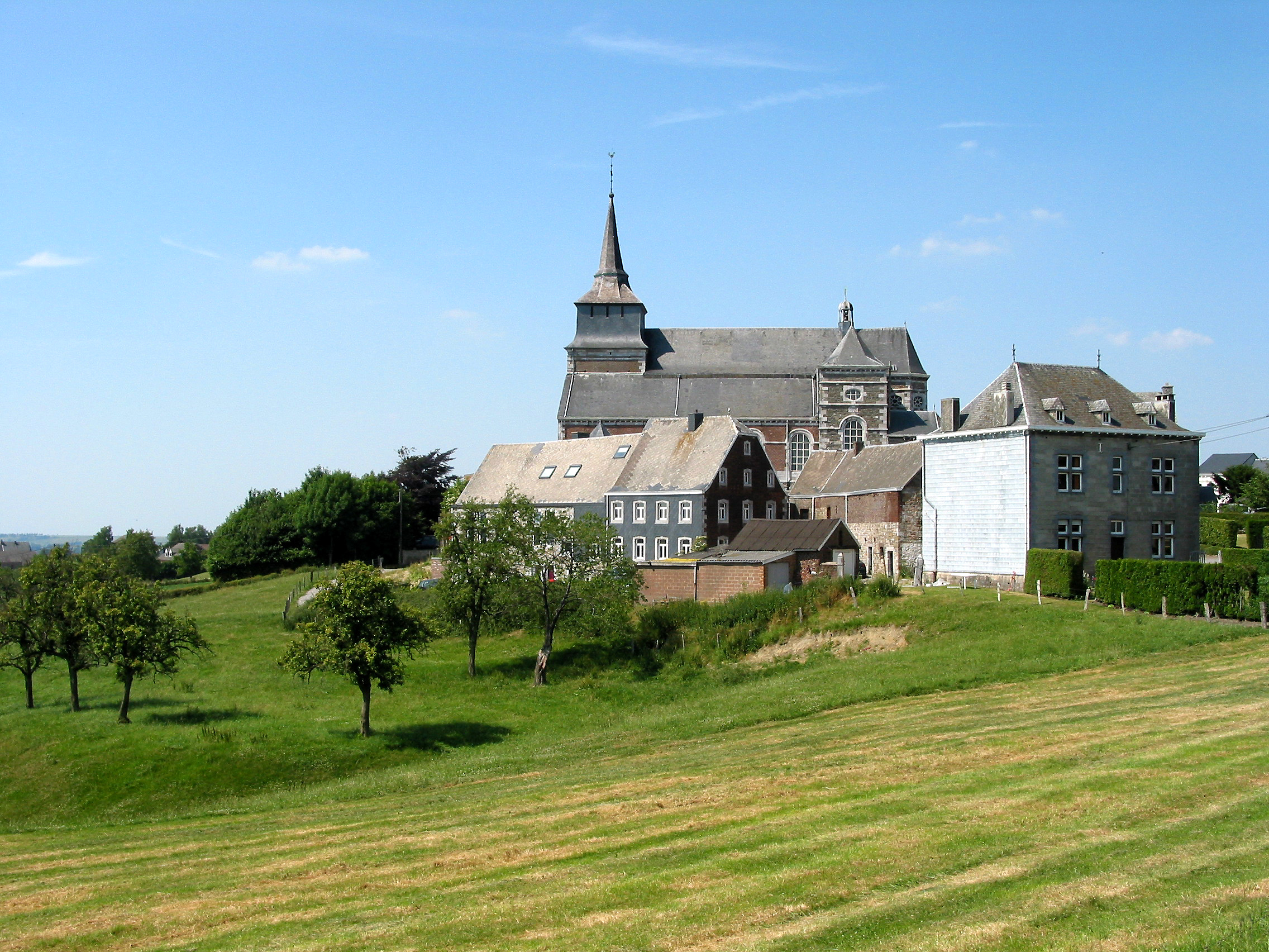 Thimister-Clermont (Belgium), the St.Jacques le Majeur church and the old houses of the village.).